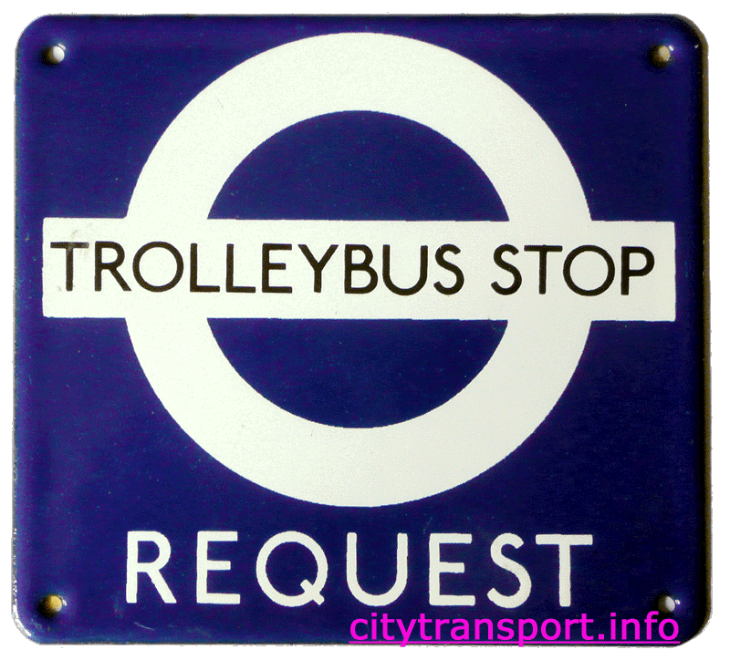 Former London Transport trolleybus stop sign